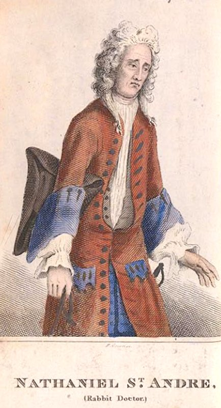 A coloured engraving of Nathaniel St Andre, from 'The Sooterkin Dissected', view page source if the link does not work